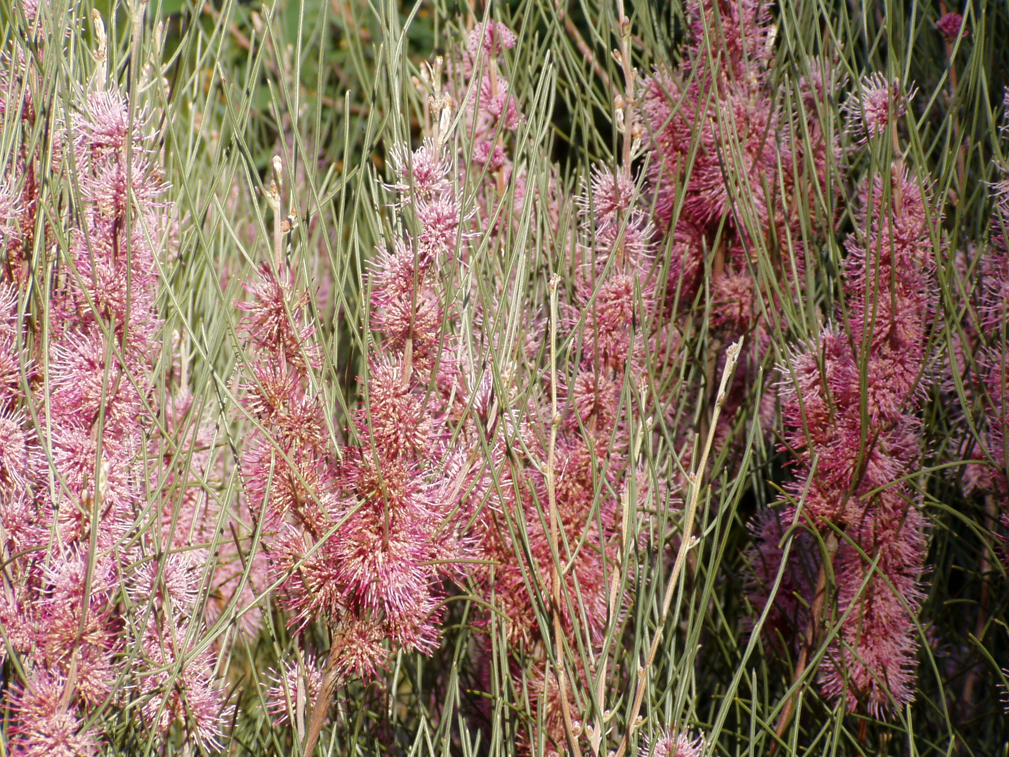 Description: Hakea scoparia Location: Australian National Botanic Gardens, Canberra, Australian Capital Territory, Australia Date: 2005-09-21 Source: picture taken by Danielle Langlois Licence: Released under GFDL and Creative Commons licenses by the photographer